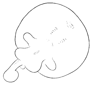 Ventral view of Typhlonarke aysoni (as Astrape aysoni in original work)